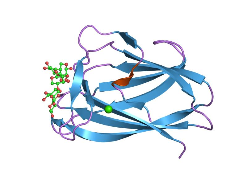 Cartoon representation of the molecular structure of protein registered with 1uxx code.